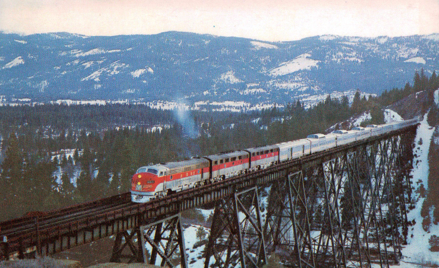 Postcard photo of the California Zephyr in the Sierra Nevada mountains approaching Feather River.